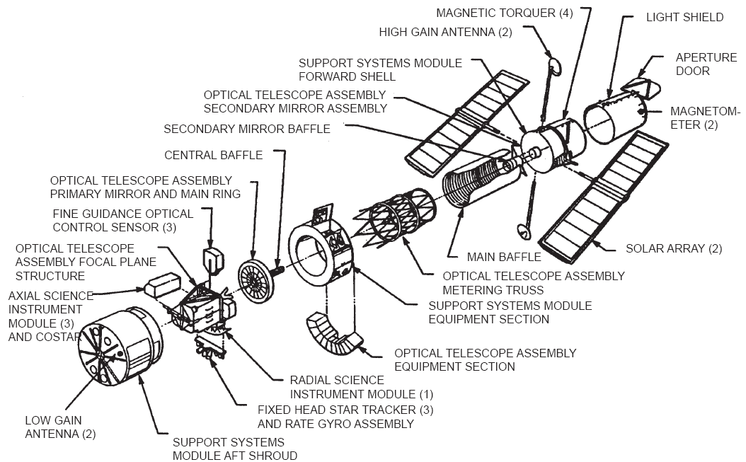 Exploded diagram of the Hubble Space Telescope